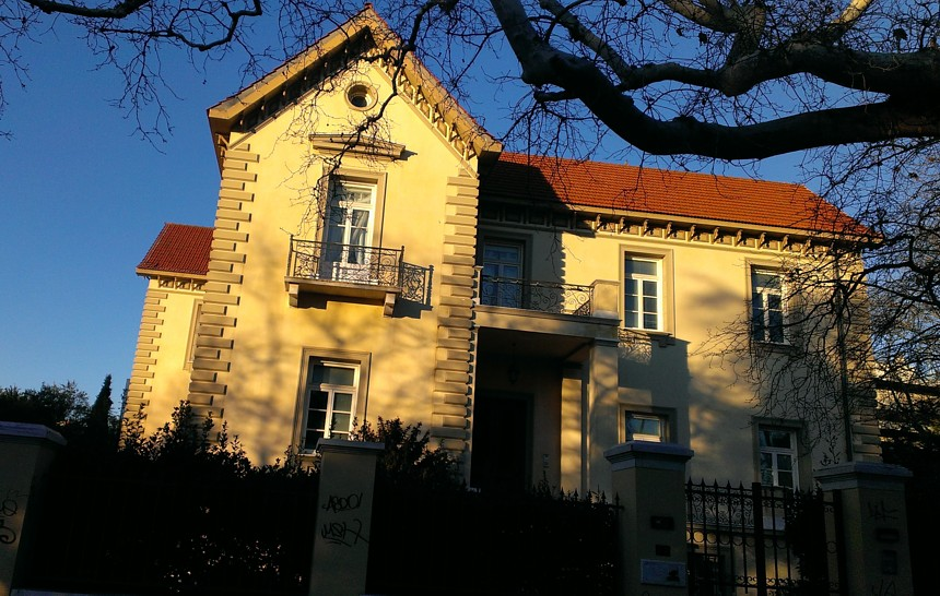 arxontika